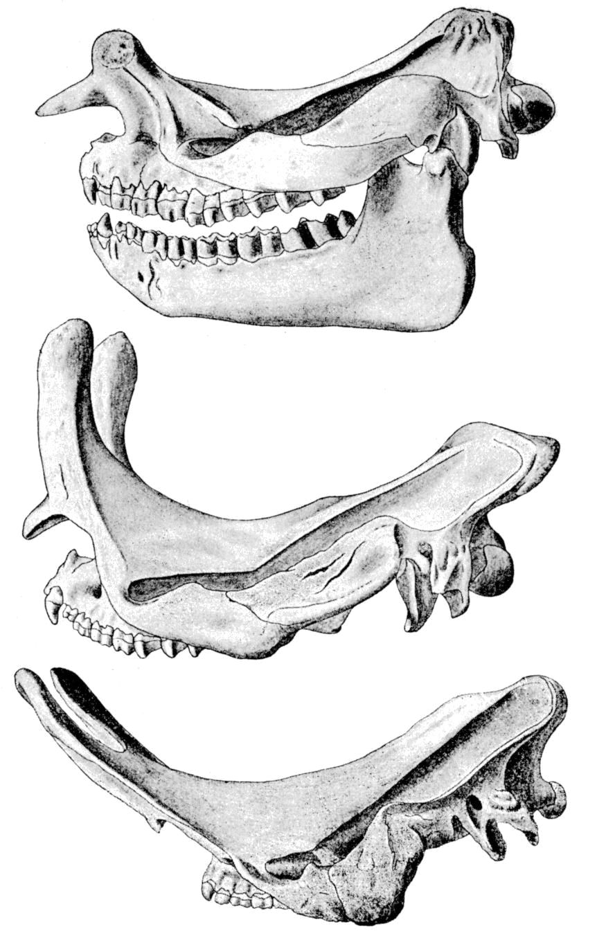 Fig. 137.—Three figures showing the cranial evolution of Titanotherium. Upper figure, T. trigonoceras; middle figure, T. elatum; lower figure, T. platyceras. (After Osborn.) These are no longer referred to the same genus: modern names are Menops trigonoceras, Brontotherium gigas and Megacerops platyceras.